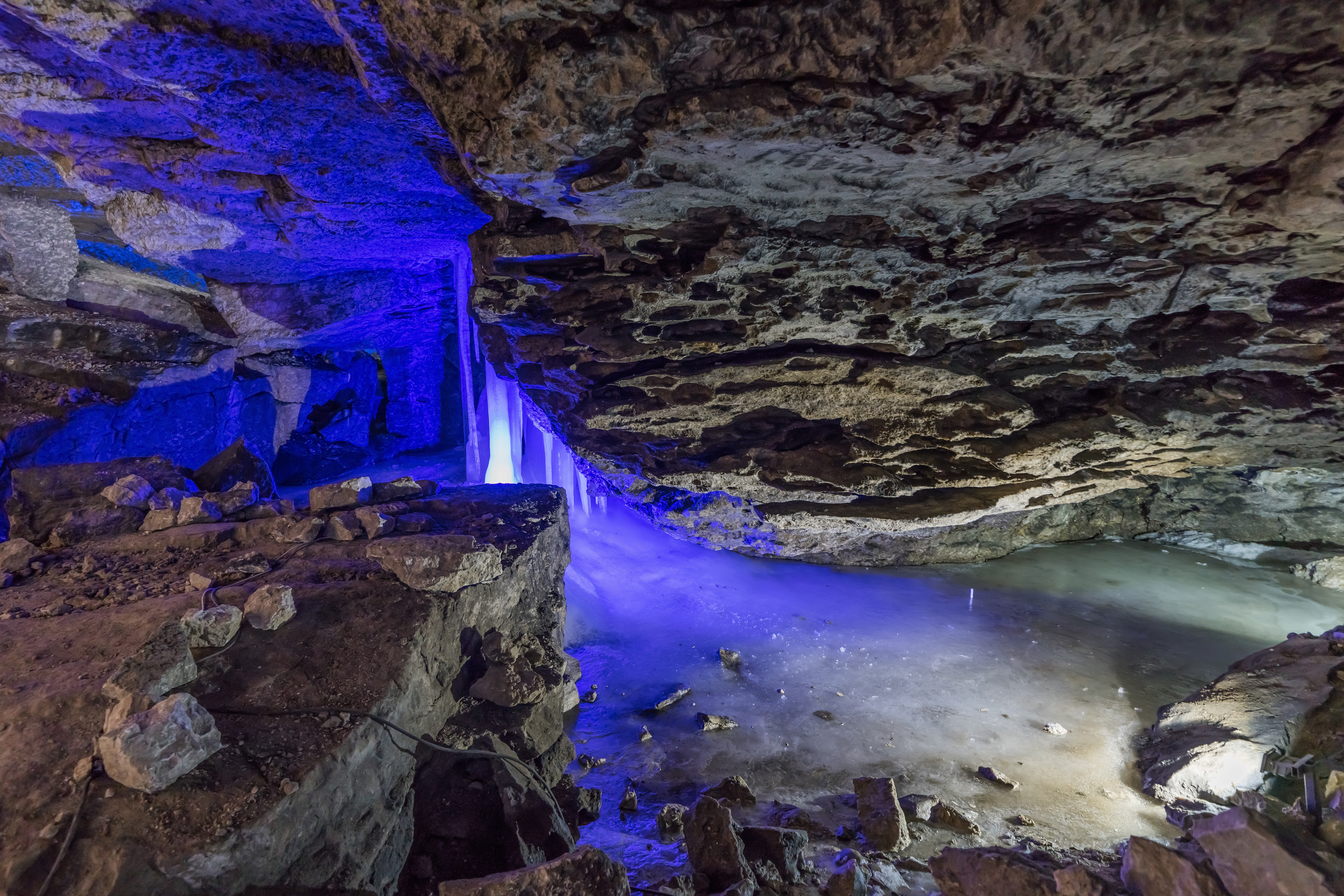 Cross Grotto of the Ice Cave in Kungur, Perm Krai, Russia